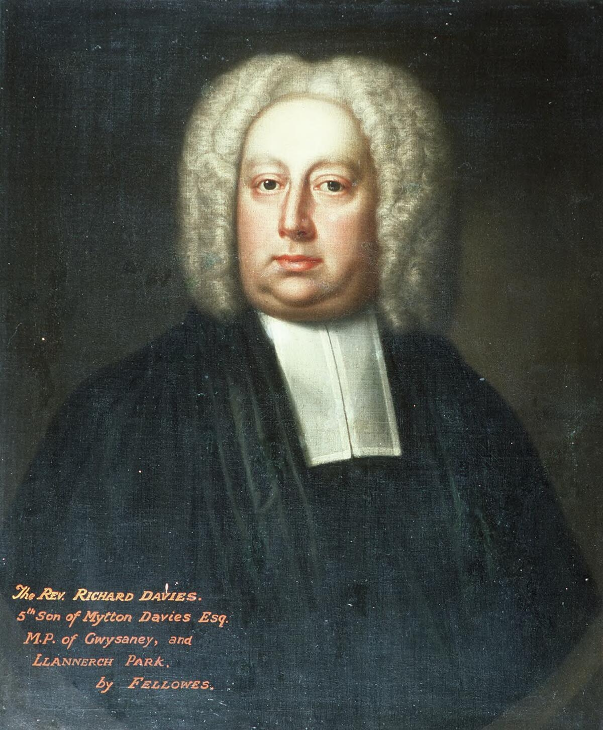 A painting from the Framed Works of Art collection at the National Library of wales.